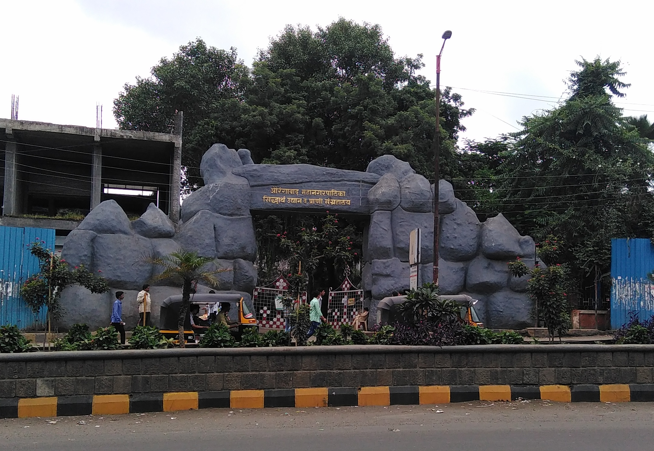 Siddharth Garden and Zoo in Aurangabad, Maharashtra, India.